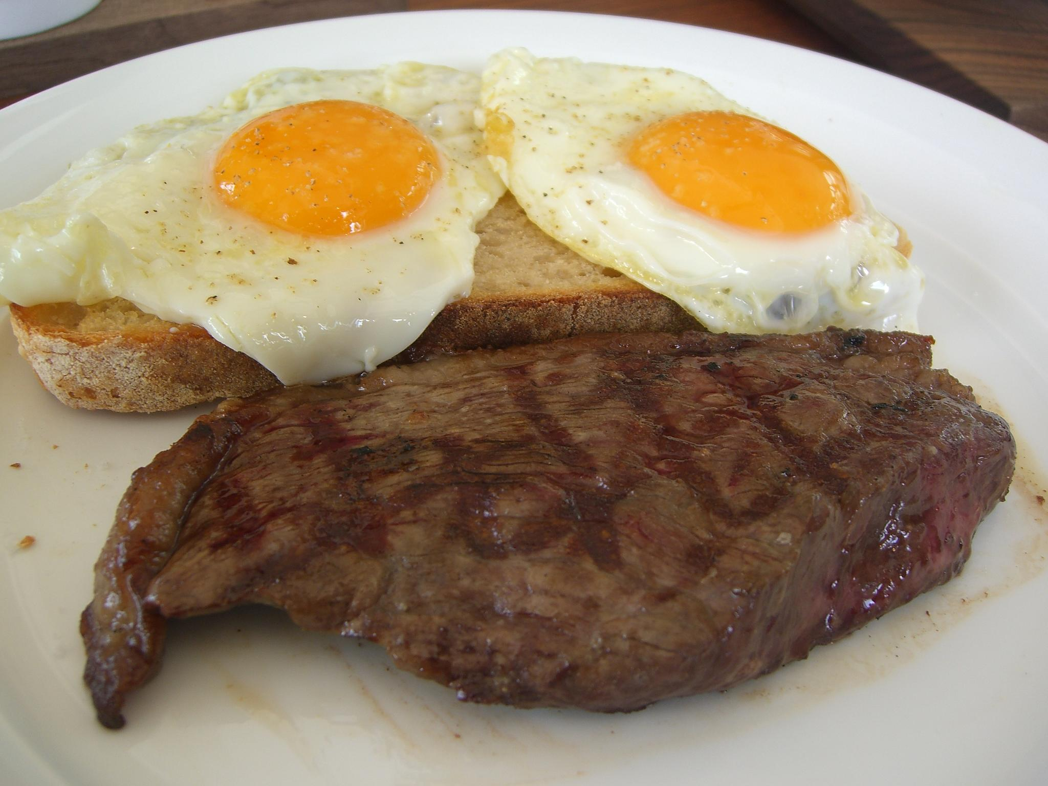 Breakfast at Jones the Grocer, Chadstone, with Raymond. The Wagyu steak and eggs while looking a bit plain turned out to be an amazing hunk of beef. Nice and minerally, and not too fatty like Wagyu tends to be. Sure, Wagyu is supposed to be highly marbled with fat, but this was just nice. I think it was a rump steak.